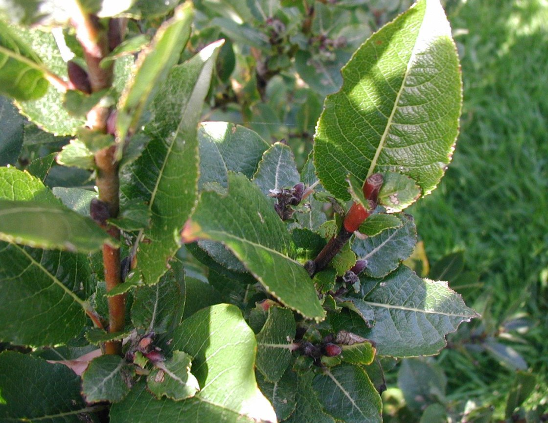 Salix hastata: Leaves and buds. Photo: Sten Porse